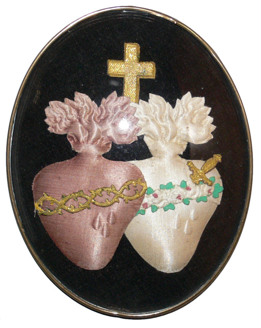 Sacred Heart (of Christ) and Immaculate Heart of Mary, probably early 20th century; from a private collection